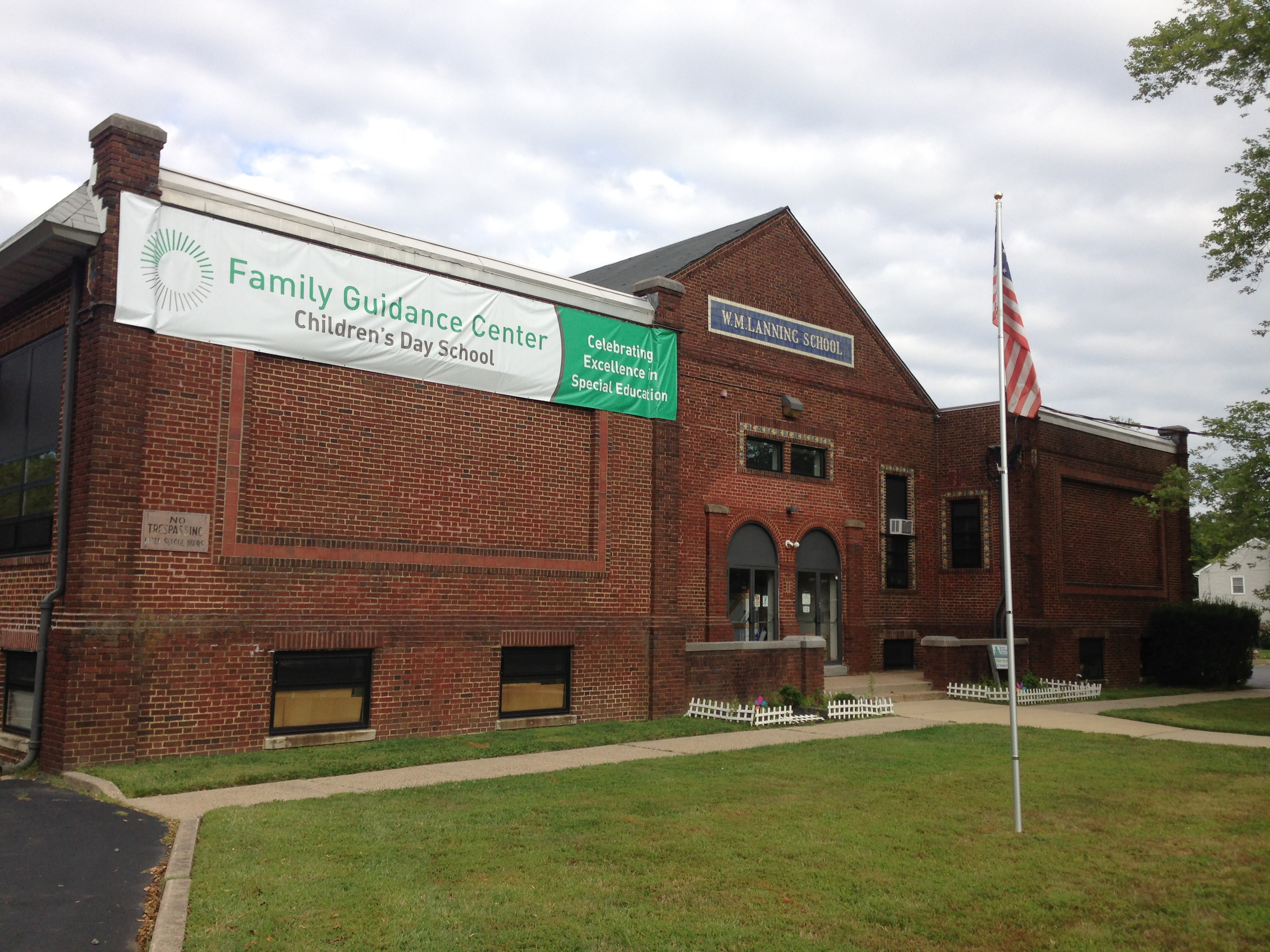 View of the front of W. M. Lanning School in Ewing, New Jersey from the southeast